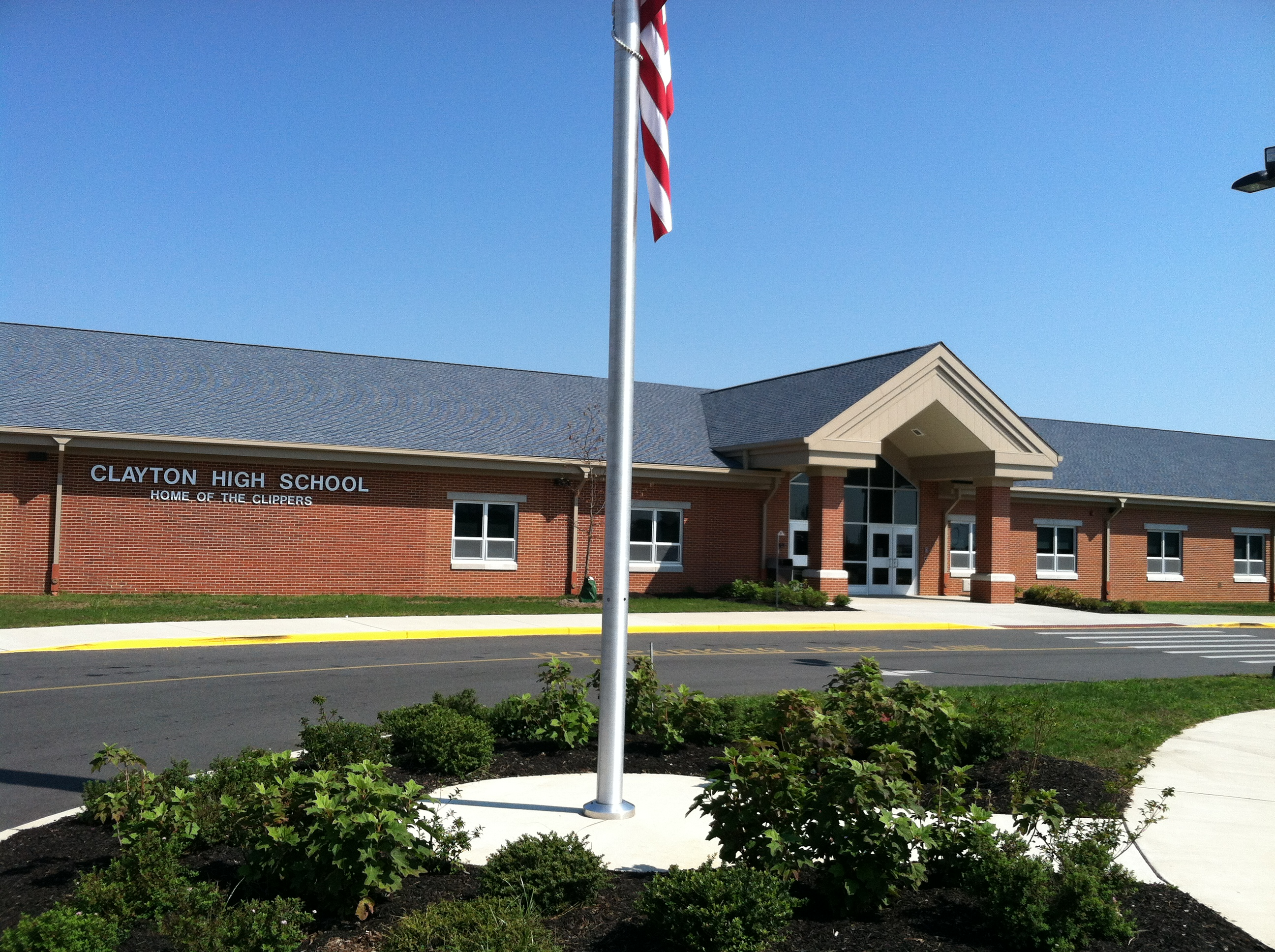 IMAGE OF THE MAIN ENTRANCE OF CLAYTON HIGH SCHOOL, CLAYTON, NEW JERSEY